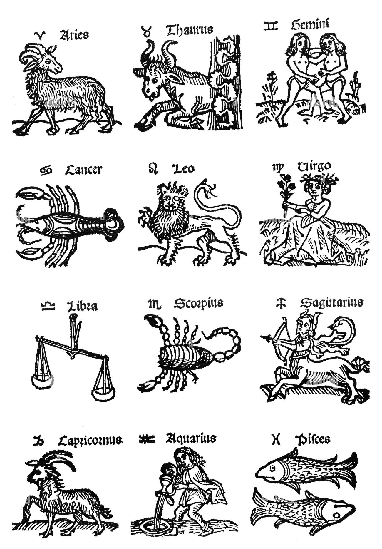 Zodiac signs, 16th century, medieval woodcuts